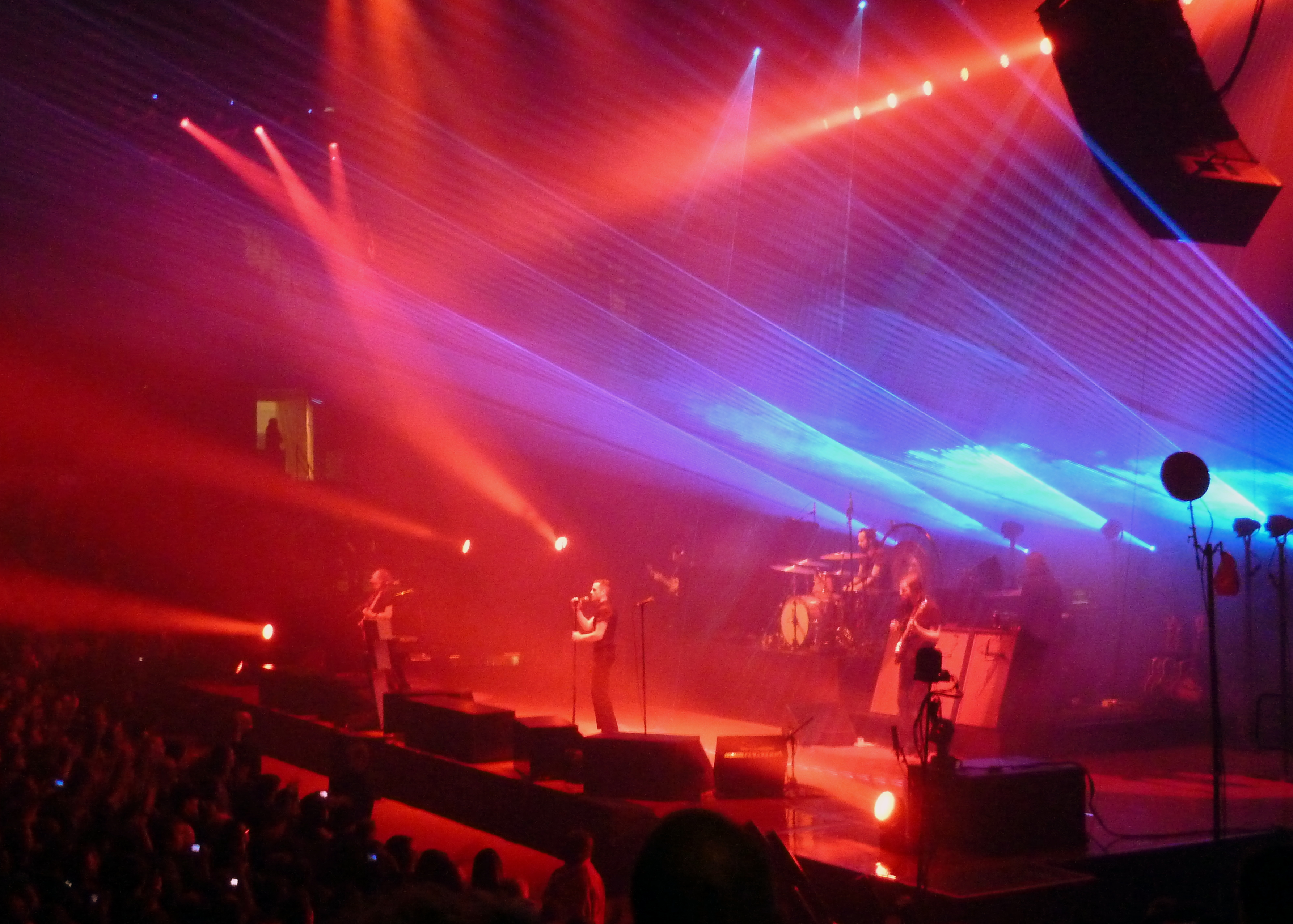 Band The Killers performing at Eastern Michigan University Convocation Center in Ypsilanti near Detroit, Michigan